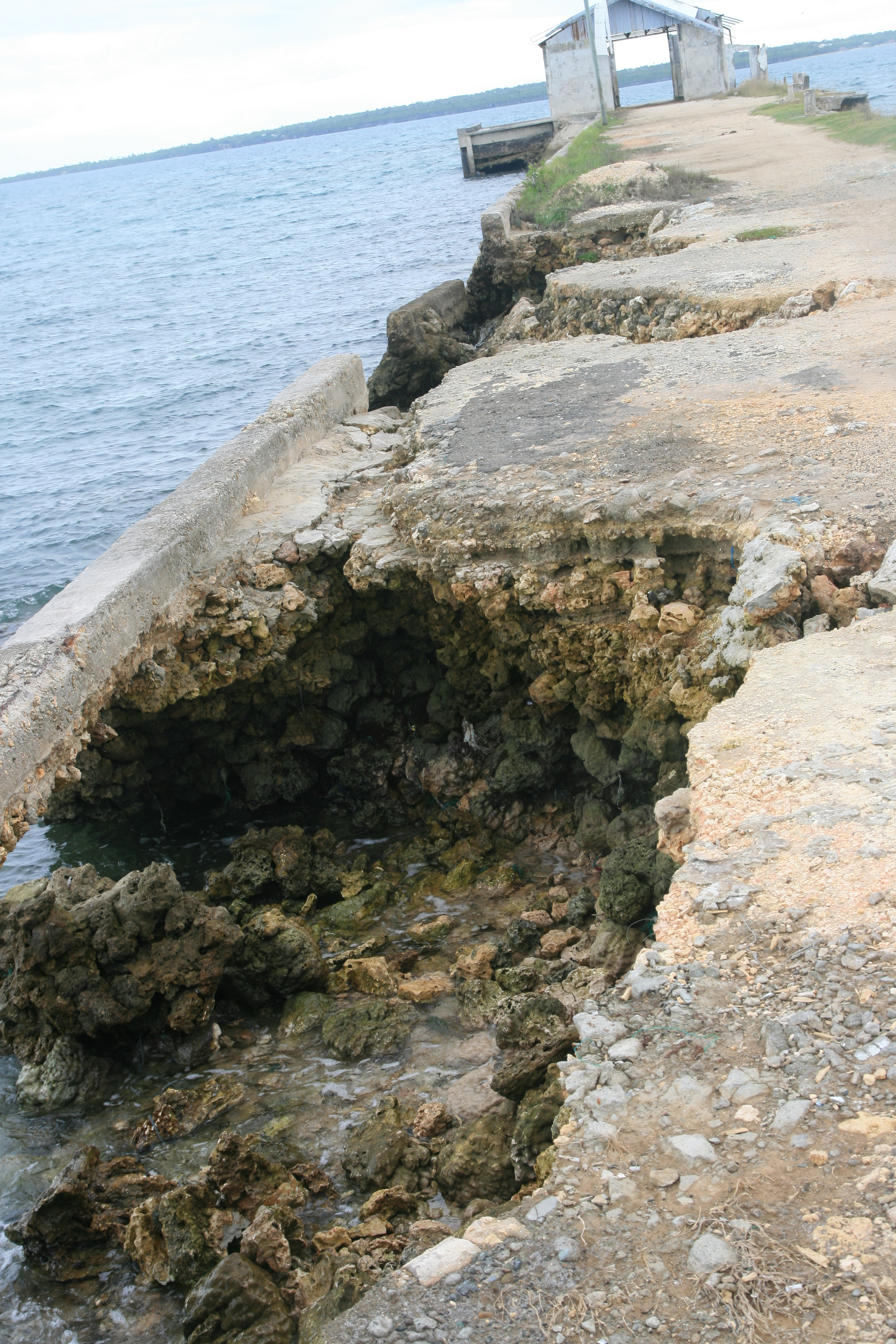 Pumpboat dock at barangay Ba'igad, Bantayan